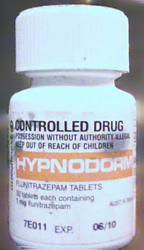 Bottle of Hypnodorm 1mg Flunitrazepam tabs, Australia